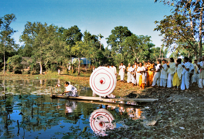 Pooja at Dakhinpath Satra, Majuli Island,Assam.India